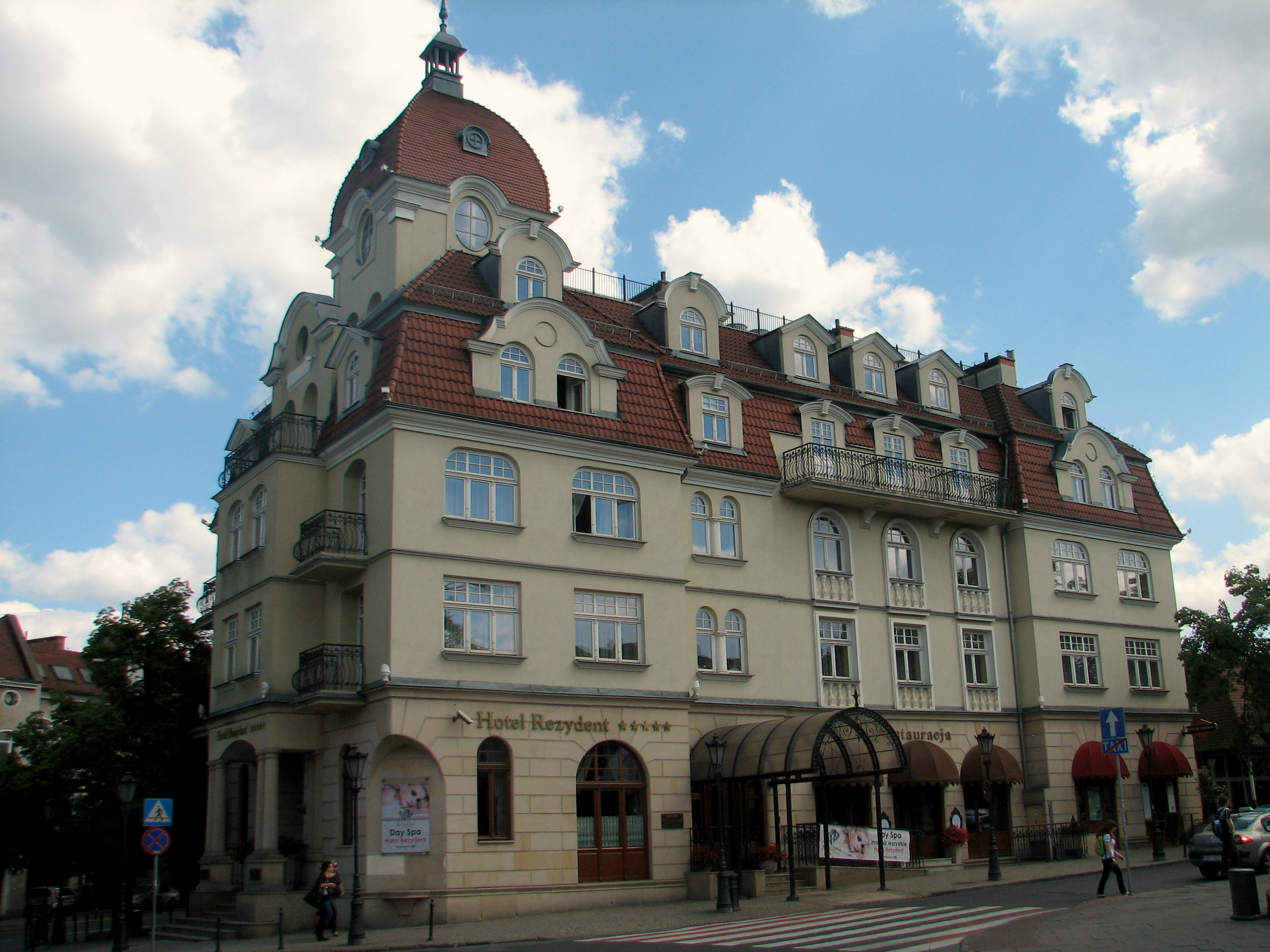 Hotel Rezydent in Sopot, Poland - view from North-West.